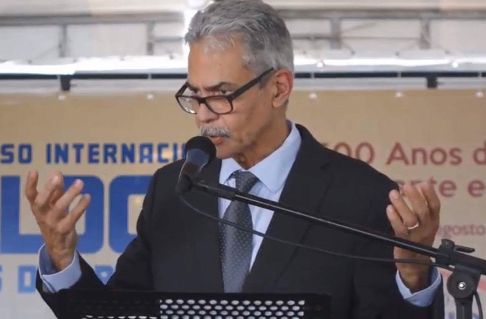 Prof. Dr. Luis Rivera-Pagán delivering the closing address at the III International Conference on Theology and Sciences of Religions, 22-25 August 2017, Vitória/ES, Brazil